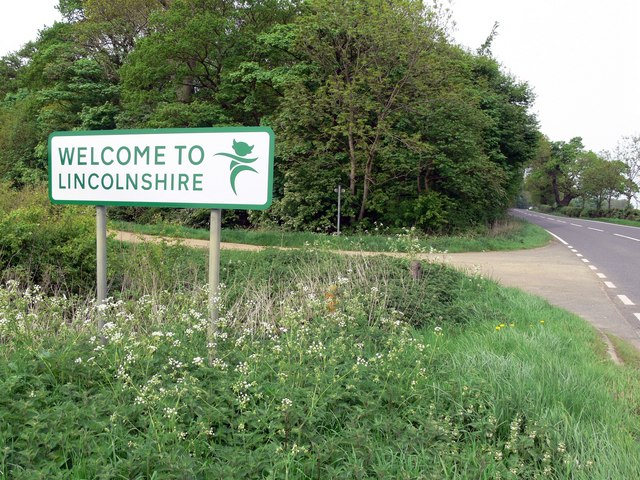 The A607 enters Lincolnshire The track is The Viking Way long distance footpath, the trees behind it are Top Ash Plantation.